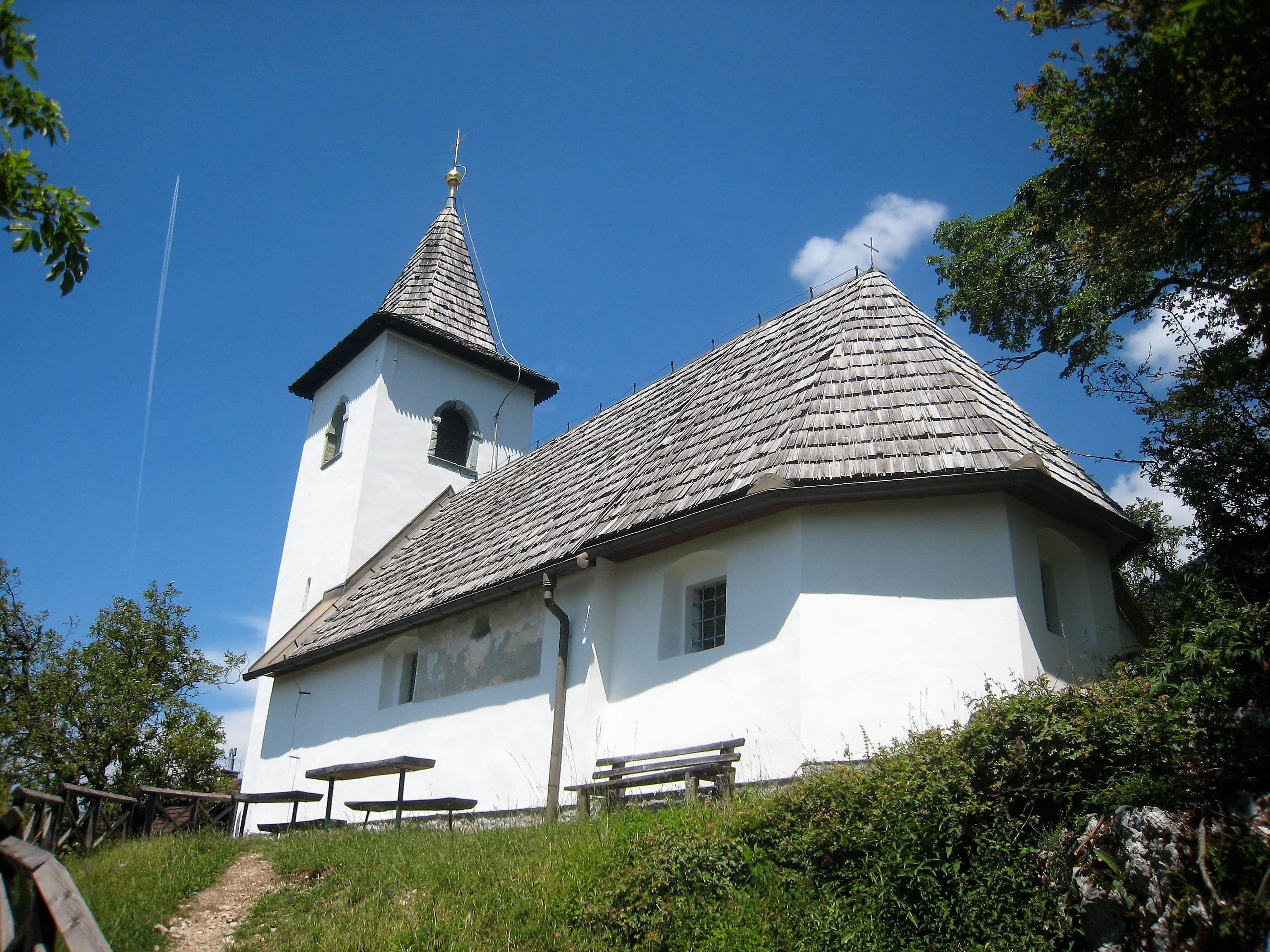 St. James's Church, Potoče: the view from south-east